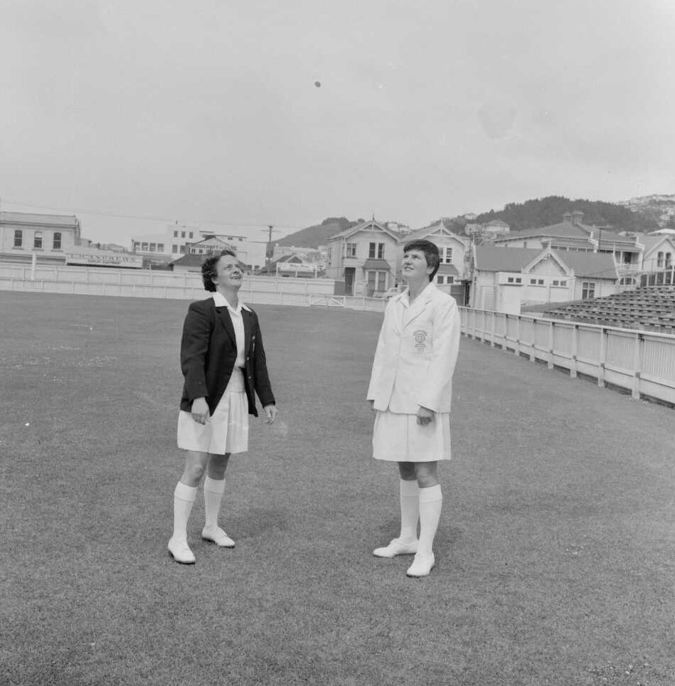 Mary Duggan and Rona McKenzie, England and New Zealand women's cricket captain, tossing the coin for a posed photo in 1957.